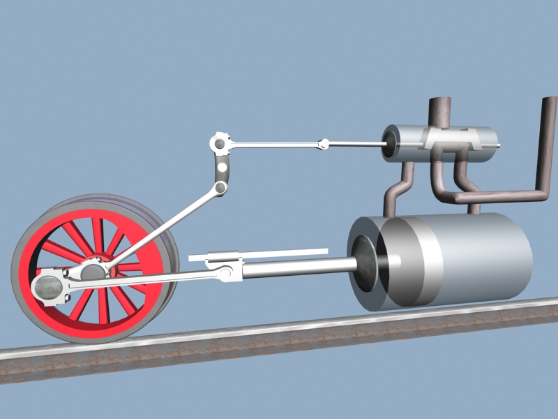 Steam locomotive moving parts